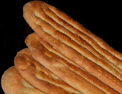 Barbari, or Tabrizi, an Iranian flatbread.